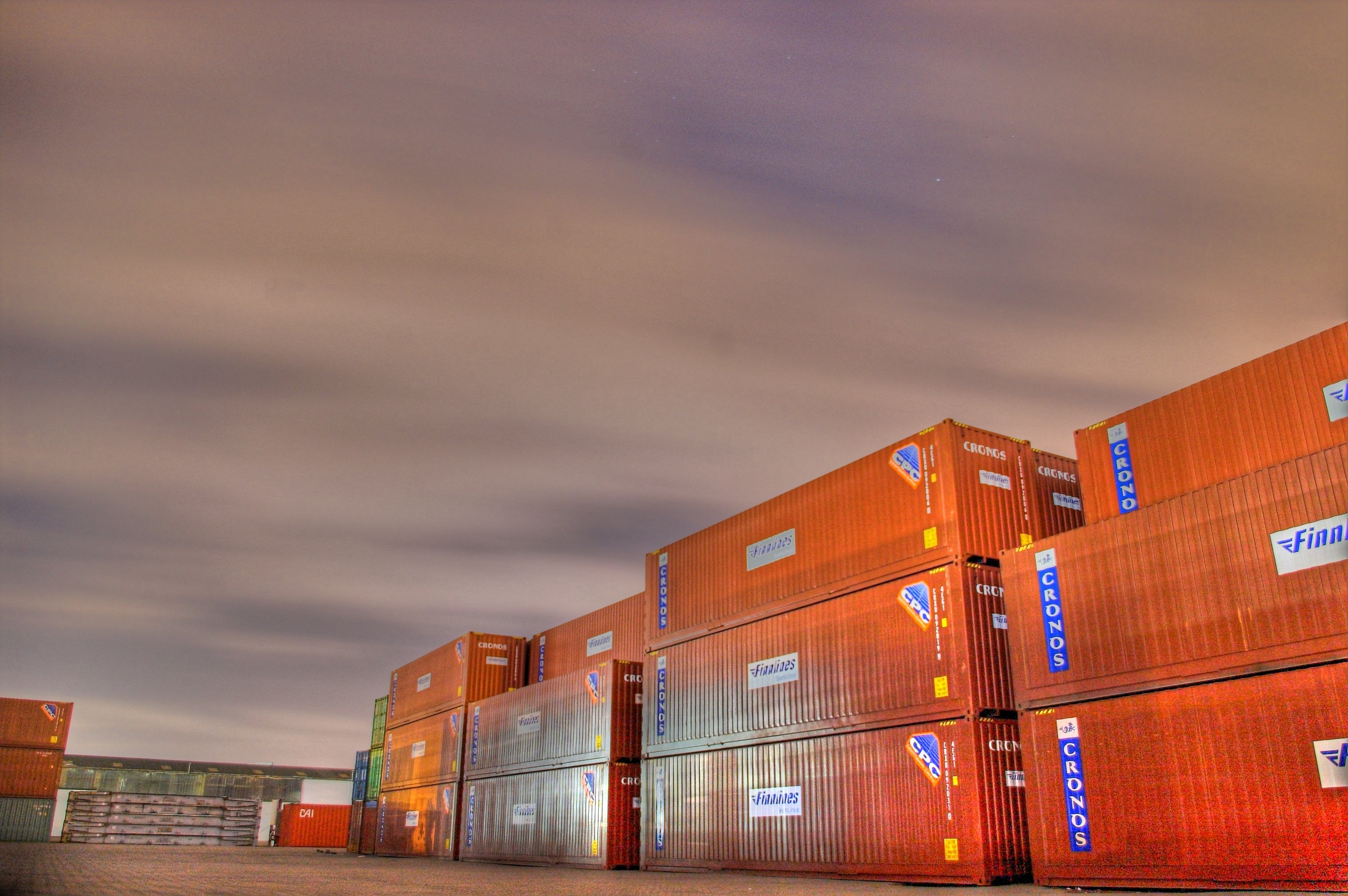 Container HDR